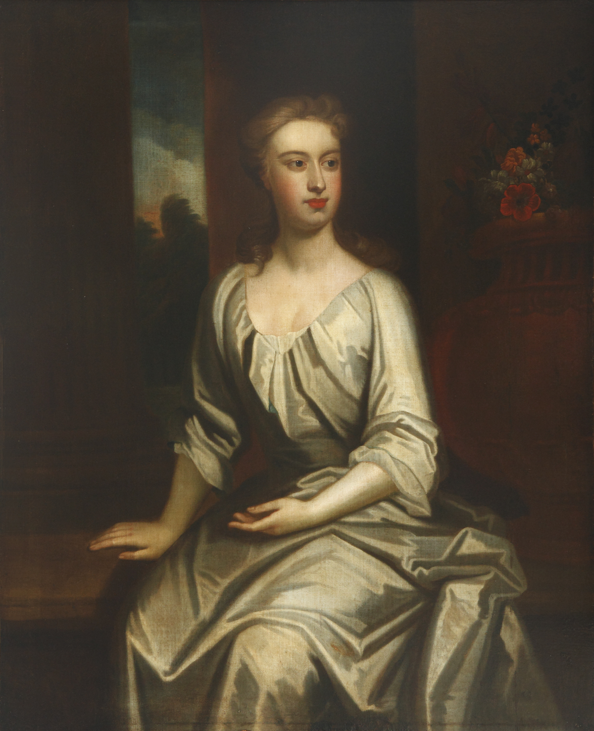 Portrait of Lady Betty